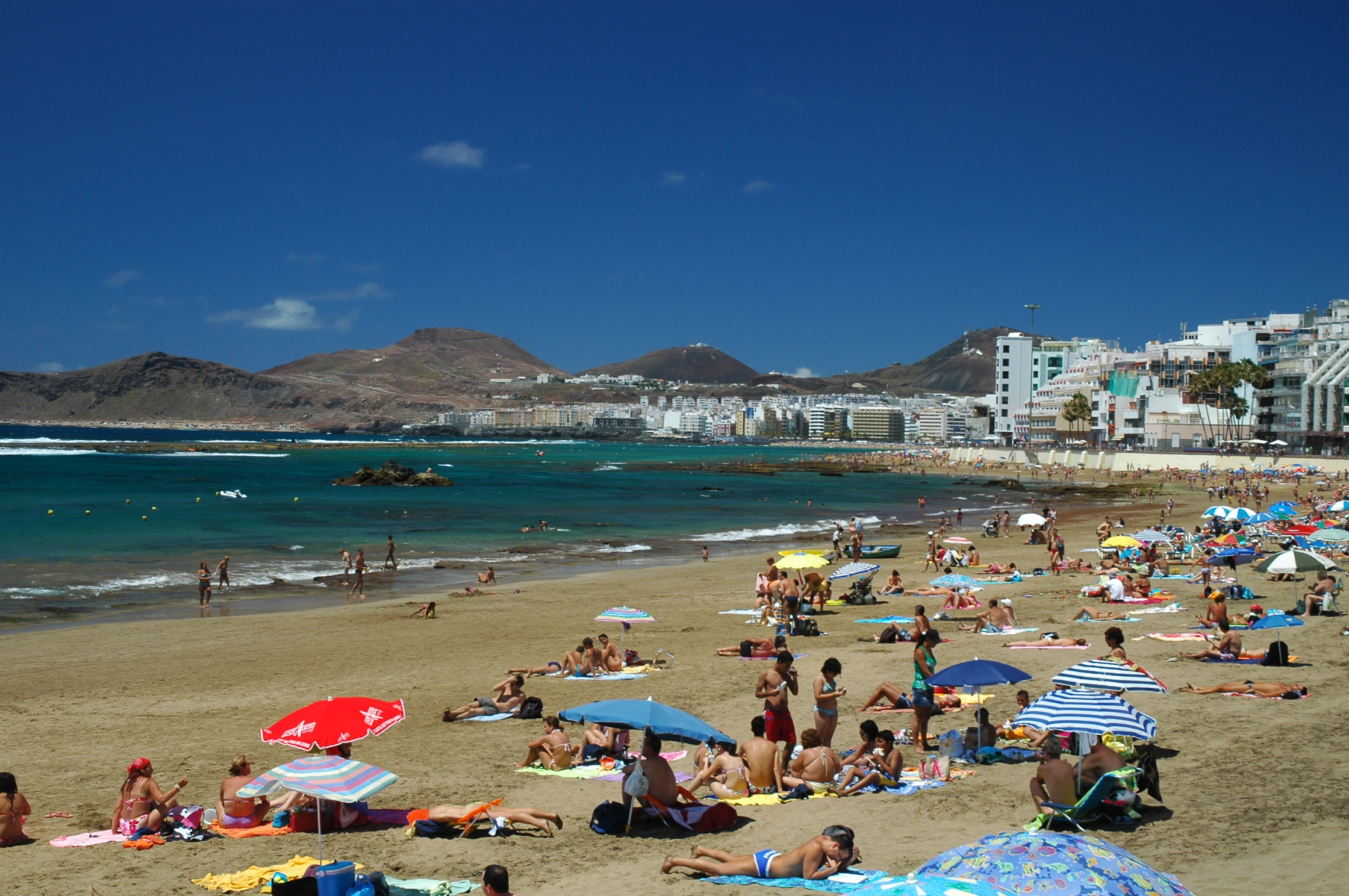 The rock of La Vieja (Peña de La Vieja) & Los Lisos. To the bottom, La Isleta mountains. Las Canteras Beach, Las Palmas de Gran Canaria (Gran Canaria), Canary Islands. Spain.